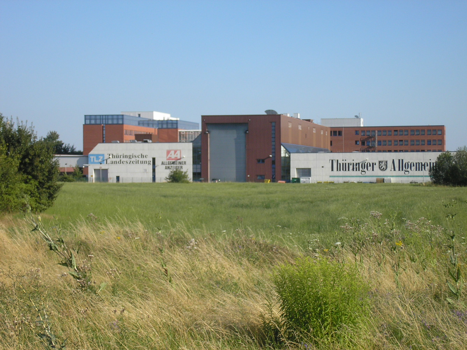 Head office of the Thüringer Allgemeine, Bindersleben, Erfurt